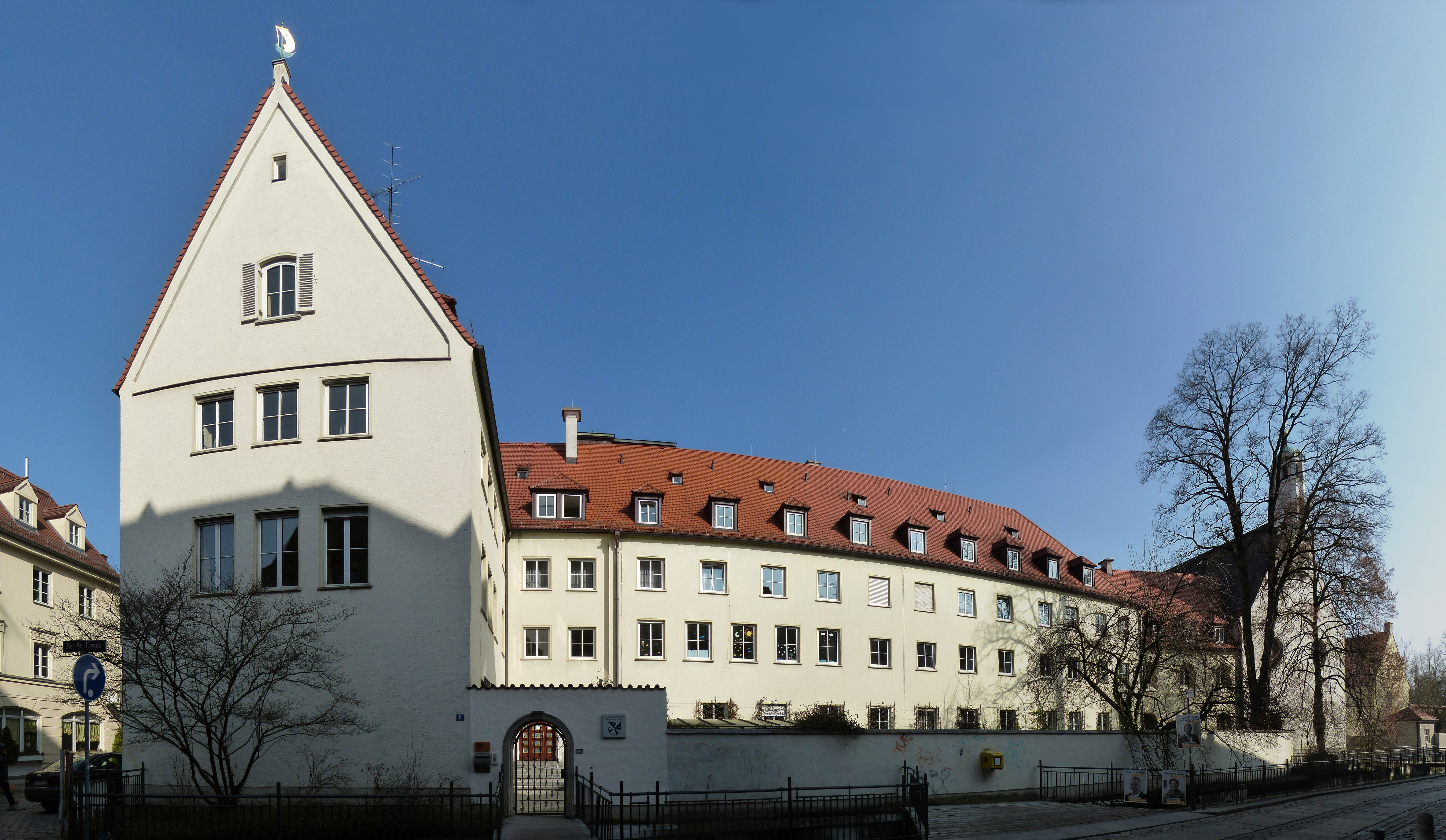 Augsburg, Bei Sankt Ursula 1. Gestitcht mit sphärischer Panini-Projektion. This is a photograph of an architectural monument.